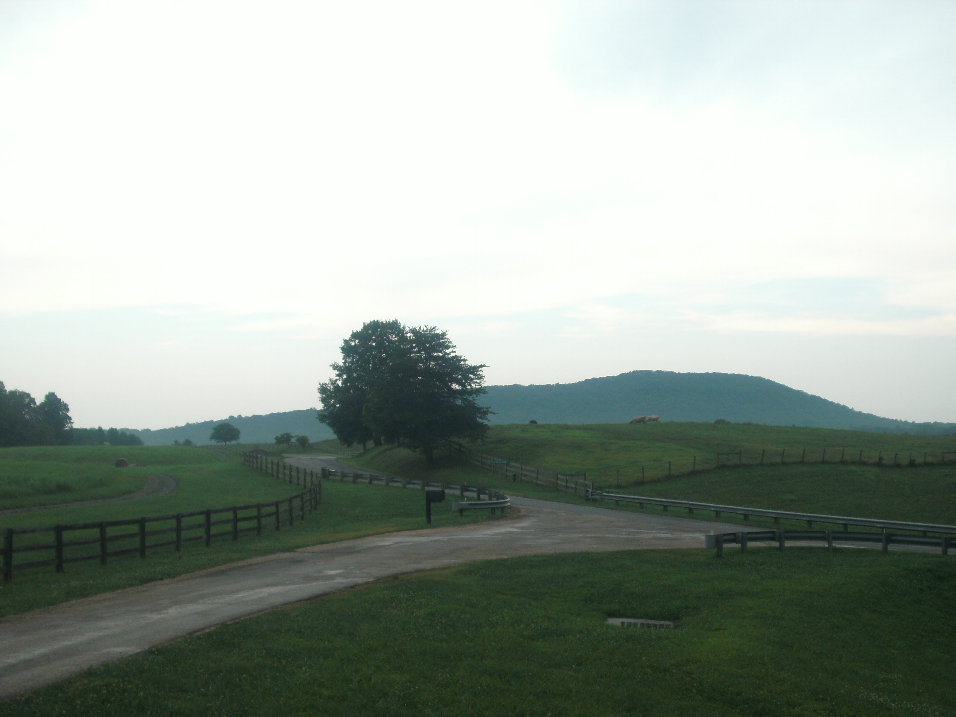 GEDSC DIGITAL CAMERA